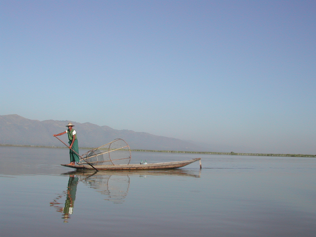 Fisherman on the Inle Lake.